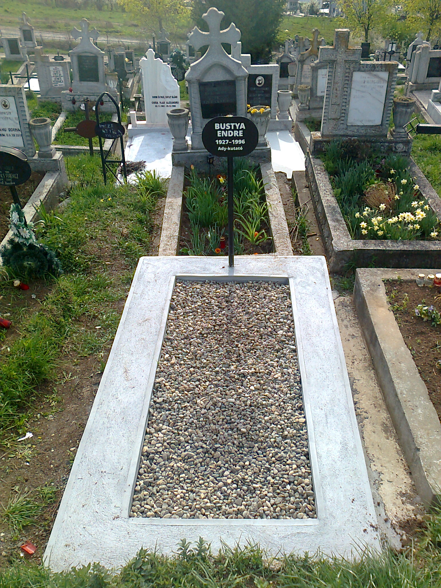 Grave of Endre Bustya (1927-1996) Hungarian literary historian, Ady-researcher